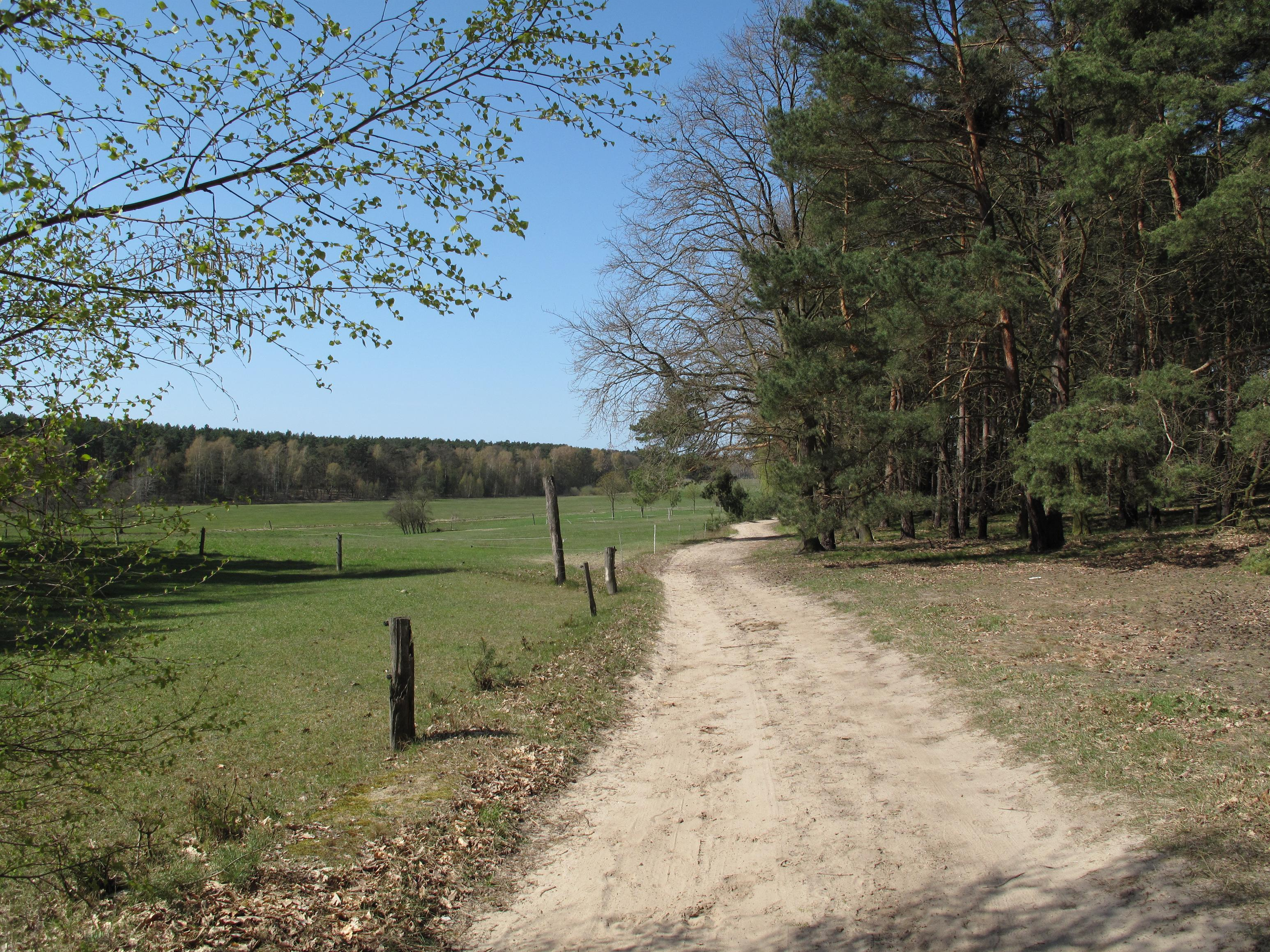 Lowland area of the Mühlenfließ (german for mill creek) between the Stückener Heide (forest) and the Rauher Berg (hill, on the right) in Kähnsdorf. The creek drained the Kähnsdorfer See/Großen Seddiner See in the past. The Großer Seddiner See is a glacial lake in the nature park Nuthe-Nieplitz in Germany, Brandenburg, district Potsdam-Mittelmark, and covers 2,18 km². The lake is situated in the municipalities Seddiner See and Michendorf.